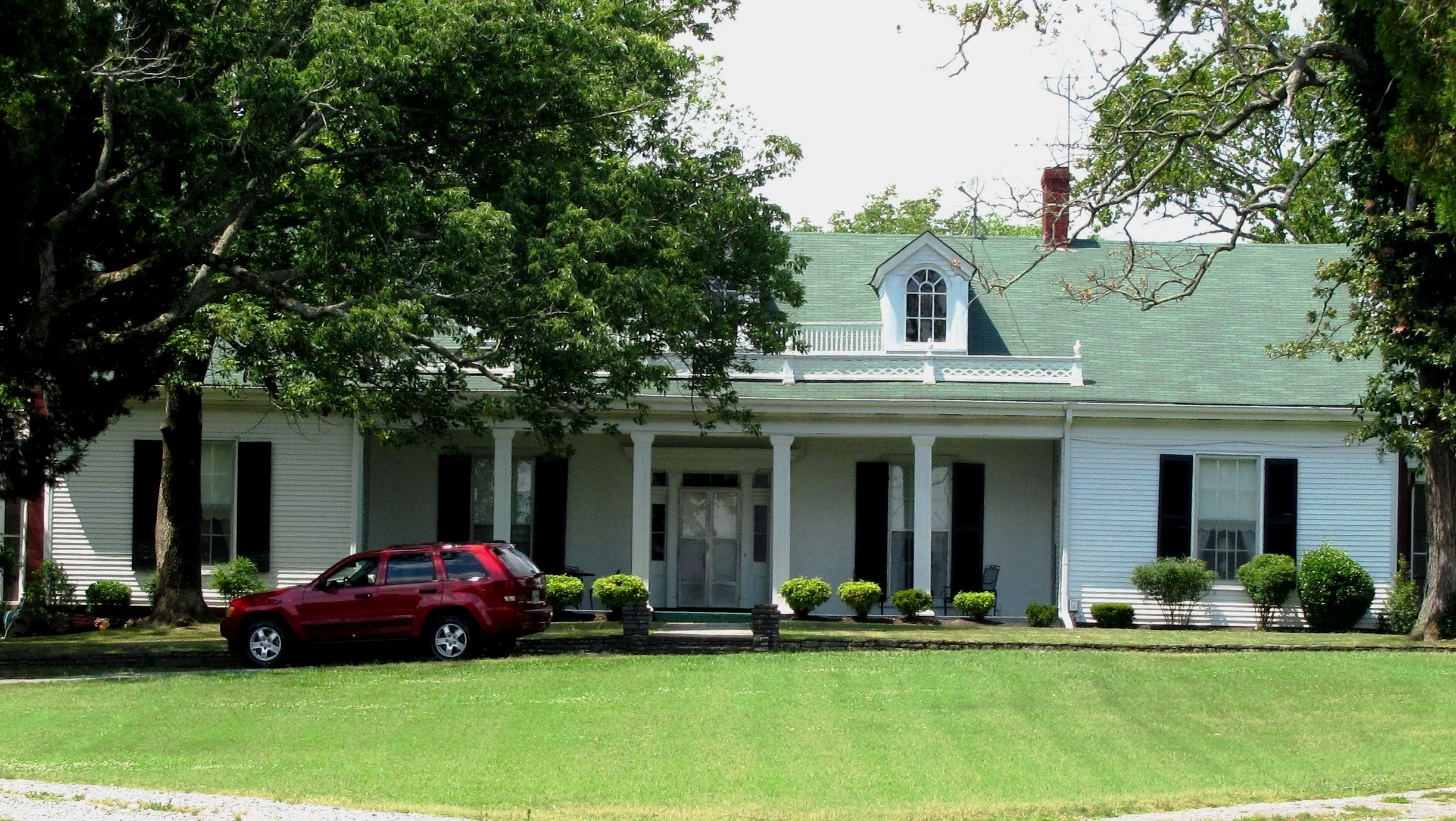 Camp Bell, a 19th-century house located on Coles Ferry Pike in Lebanon, Tennessee, USA. The house was built in the 1830s by Willam Campbell, and is listed on the National Register of Historic Places.